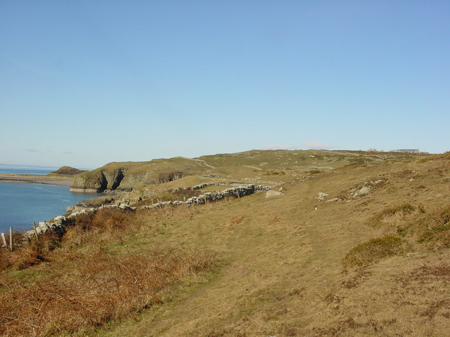 Machars coast near Red Gate